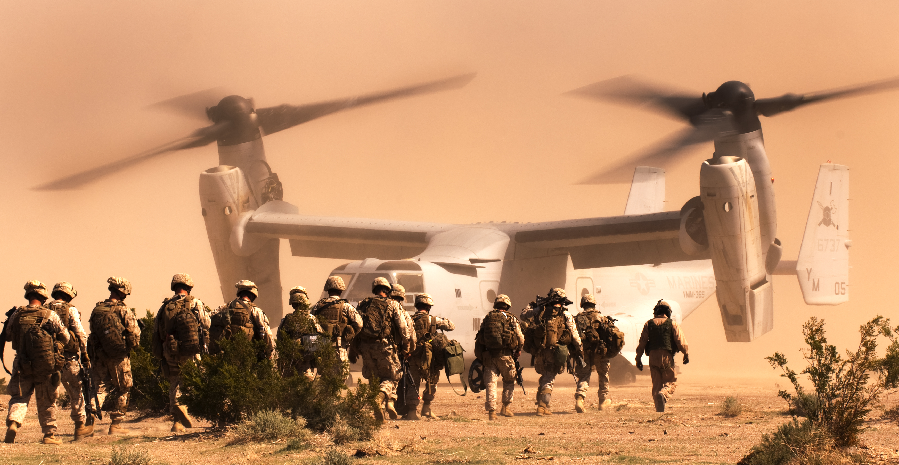 Marines and sailors from India Company, 3rd Battalion, 3rd Marine Regiment, make their way to a Marine Medium Tiltorotor Squadron 365 MV-22 Osprey near checkpoint 52 at Marine Corps Air Ground Combat Center Twentynine Palms, Calif. to fly out to Range 210 to conduct the Clear, Hold, Build Exercise 2H March 3. As the heliborne company, India was the only 3/3 company to fly into position for the exercise.